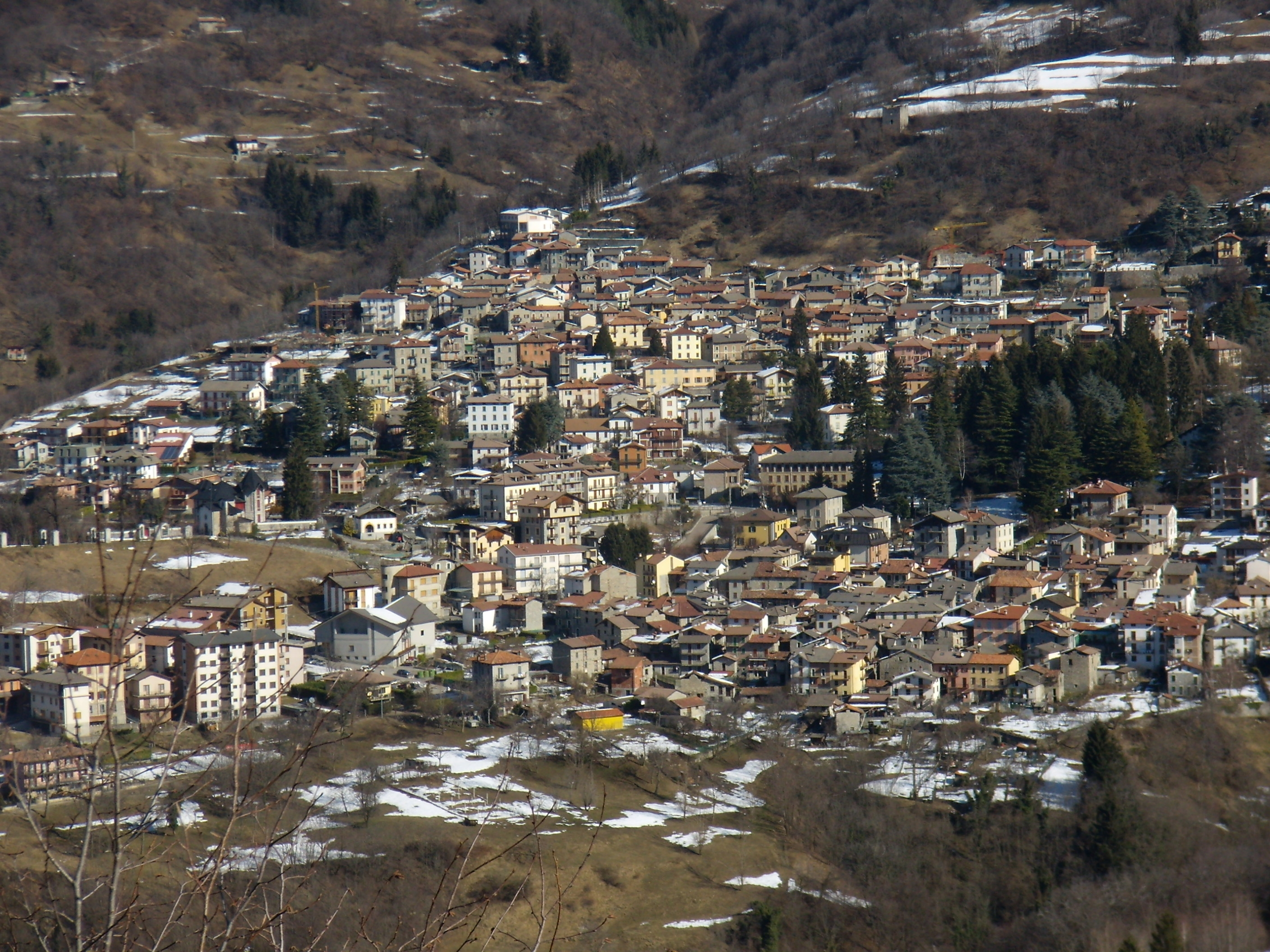 View of and from Esino Lario.